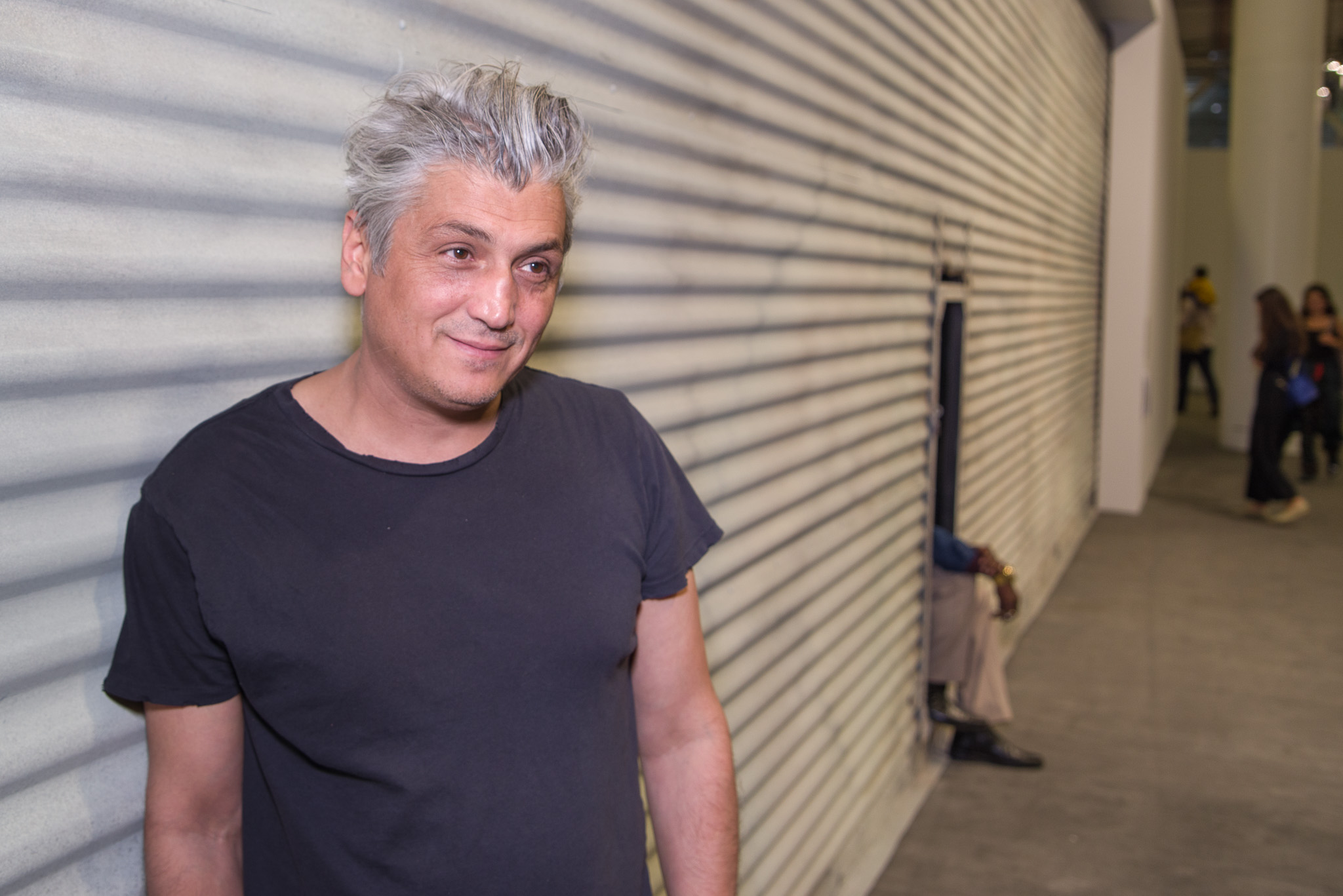 Portrait of Sislej Xhafa in front of his work "ovoid solitude" at Art Basel 2019